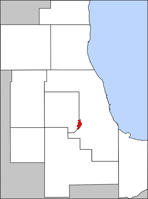 Location of Burr Ridge in Chicagoland Created with Macromedia Fireworks 4 PNG-8 Websnap adaptive color palette 256 colors